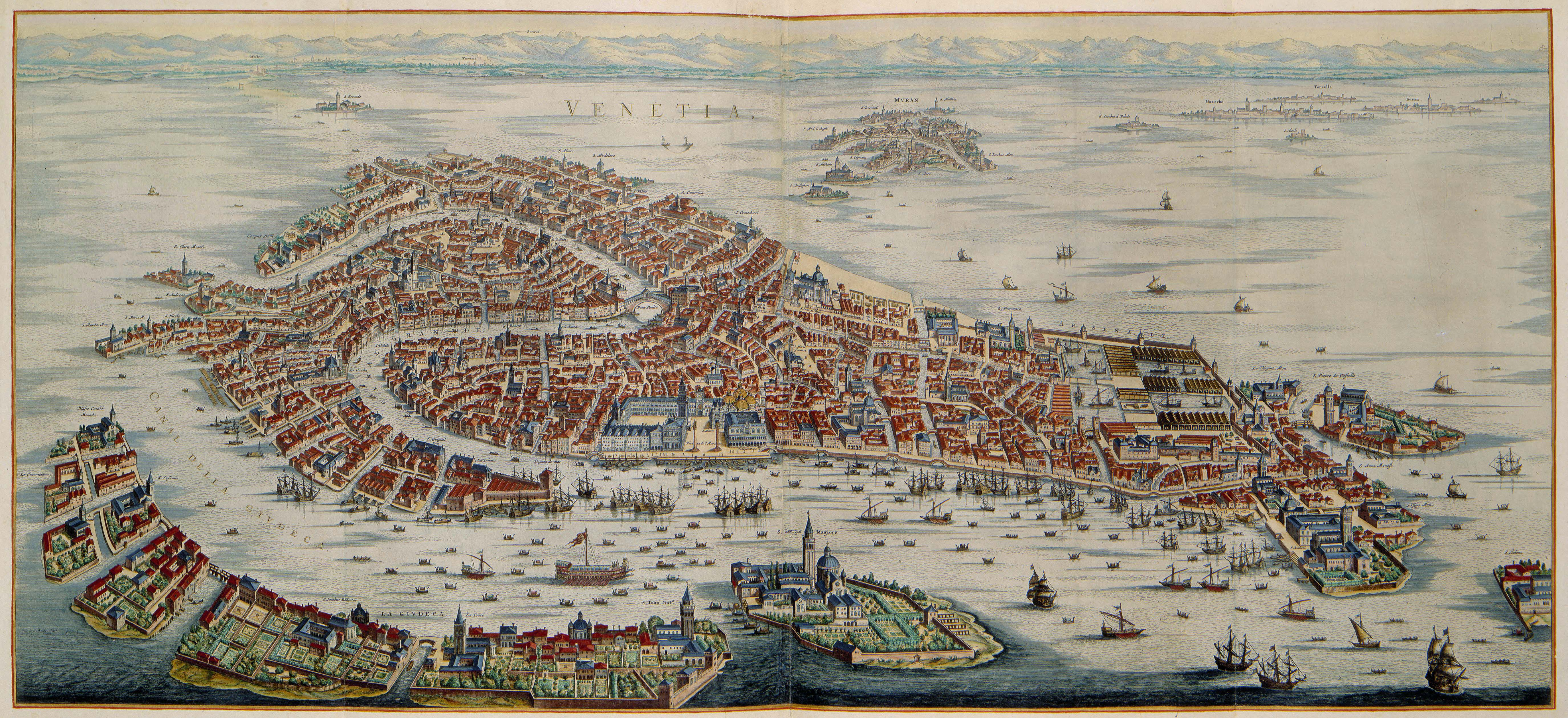 In 1704 Pieter Mortier (1661-1711) published a compilation from the five town books of Italy that were published between 1663 and 1682 by Joan Blaeu Blaeu (1571-1638) and his heirs. This publication contained several new maps and prints from the studio of Mortier. Among the new maps was this city view on the town of Venice. It is possible that this city view was inspired by one by the Italian cartographer Vincenzo Coronelli (1650-1718) from 1693.